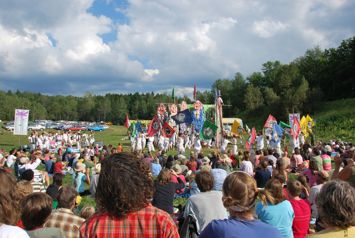 Bread and Puppet show in August 2009